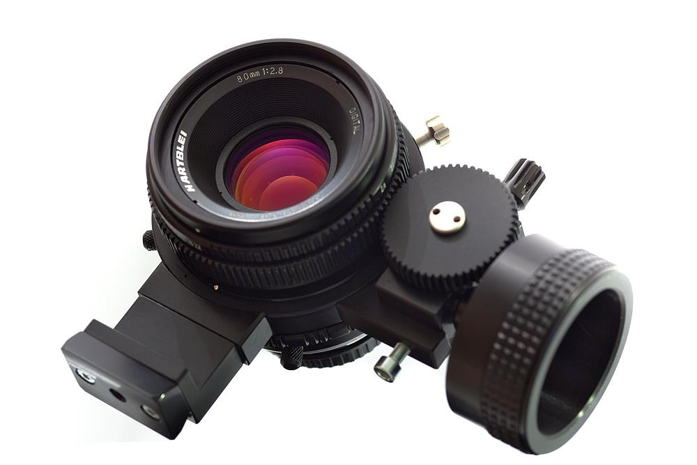 Hartblei 80mm f/2,8 MC TS-PC Super-Rotator